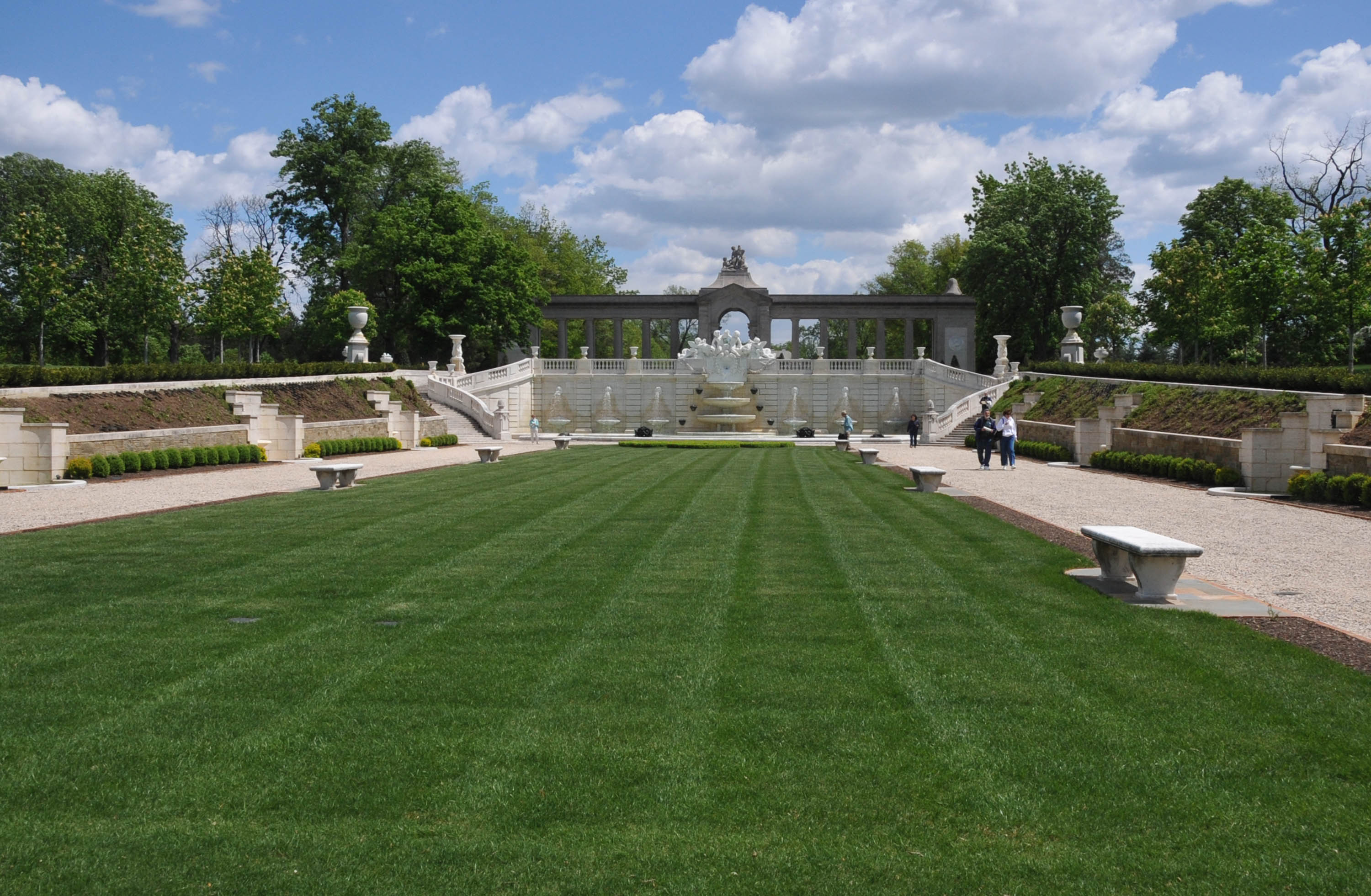 SUNKEN GARDEN WITH THE COLONNADE IN THE BACKGROUND